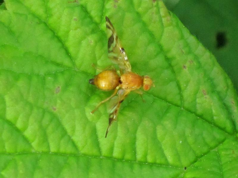 Myoleja lucida (Tephritidae sp.), Arnhem, the Netherlands